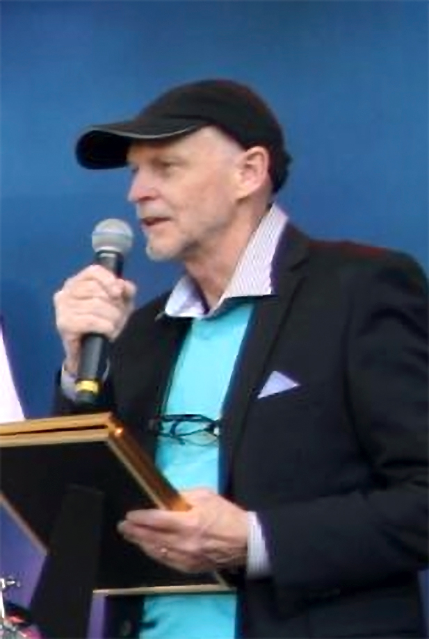 Expanded crop of Kenneth Gardestad from head to waist, presenting a Ted Gardestad Stipend award in 2016.